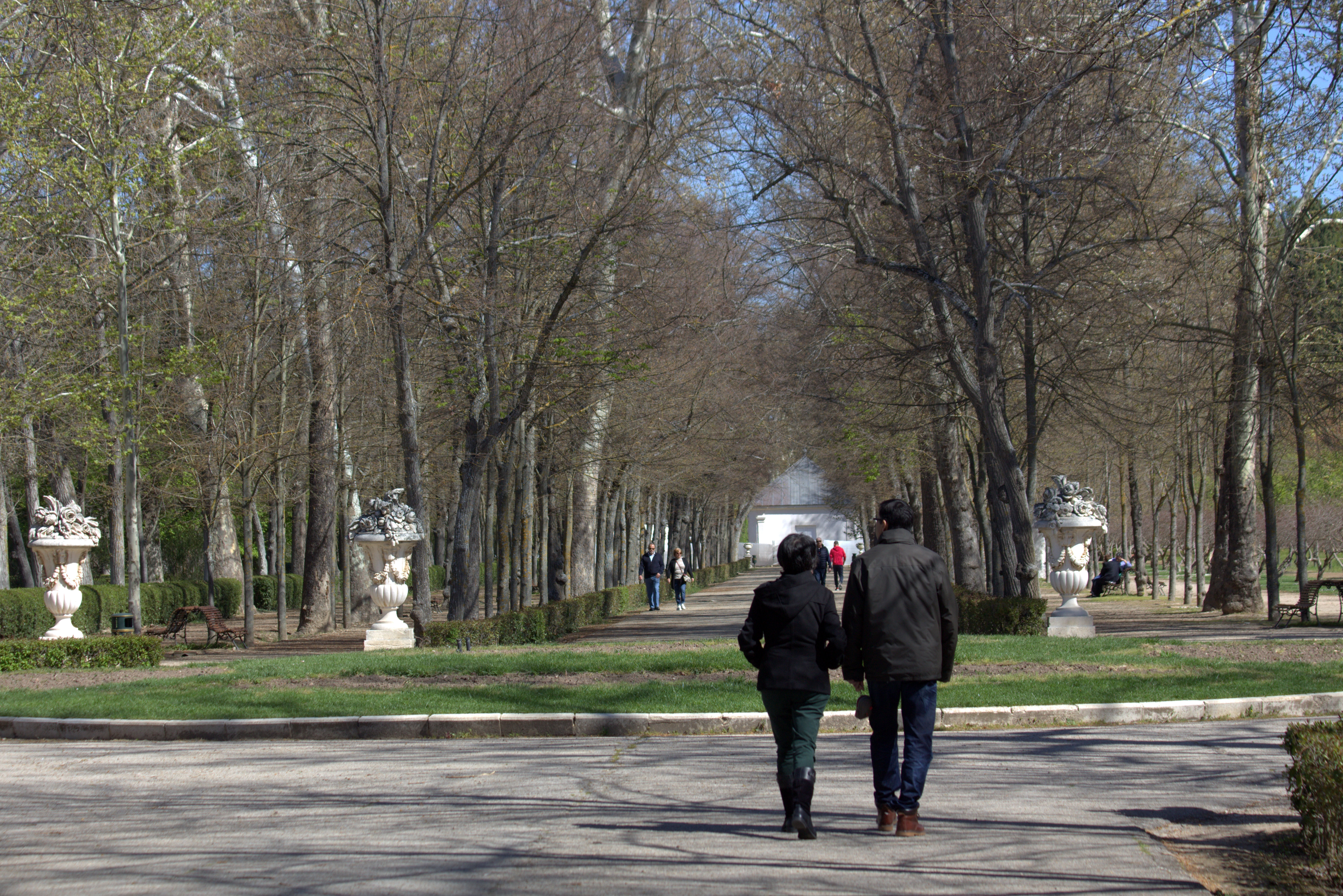 en una mañana de abril